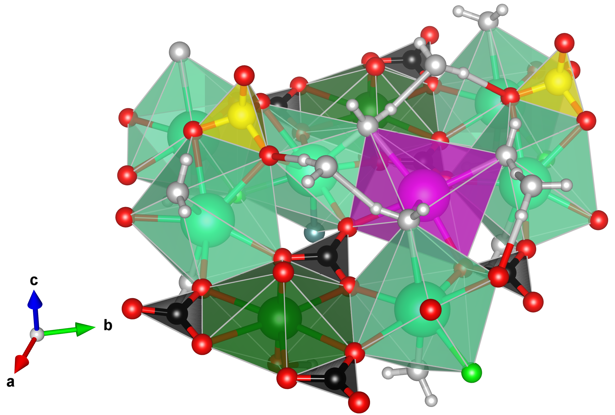 Single layer of the crystal structure of schröckingerite. U = dark green, O = red, C = black, S = yellow, Na = violet, Ca = turquoise, F = gras green, O in H2O = grey, H = light grau